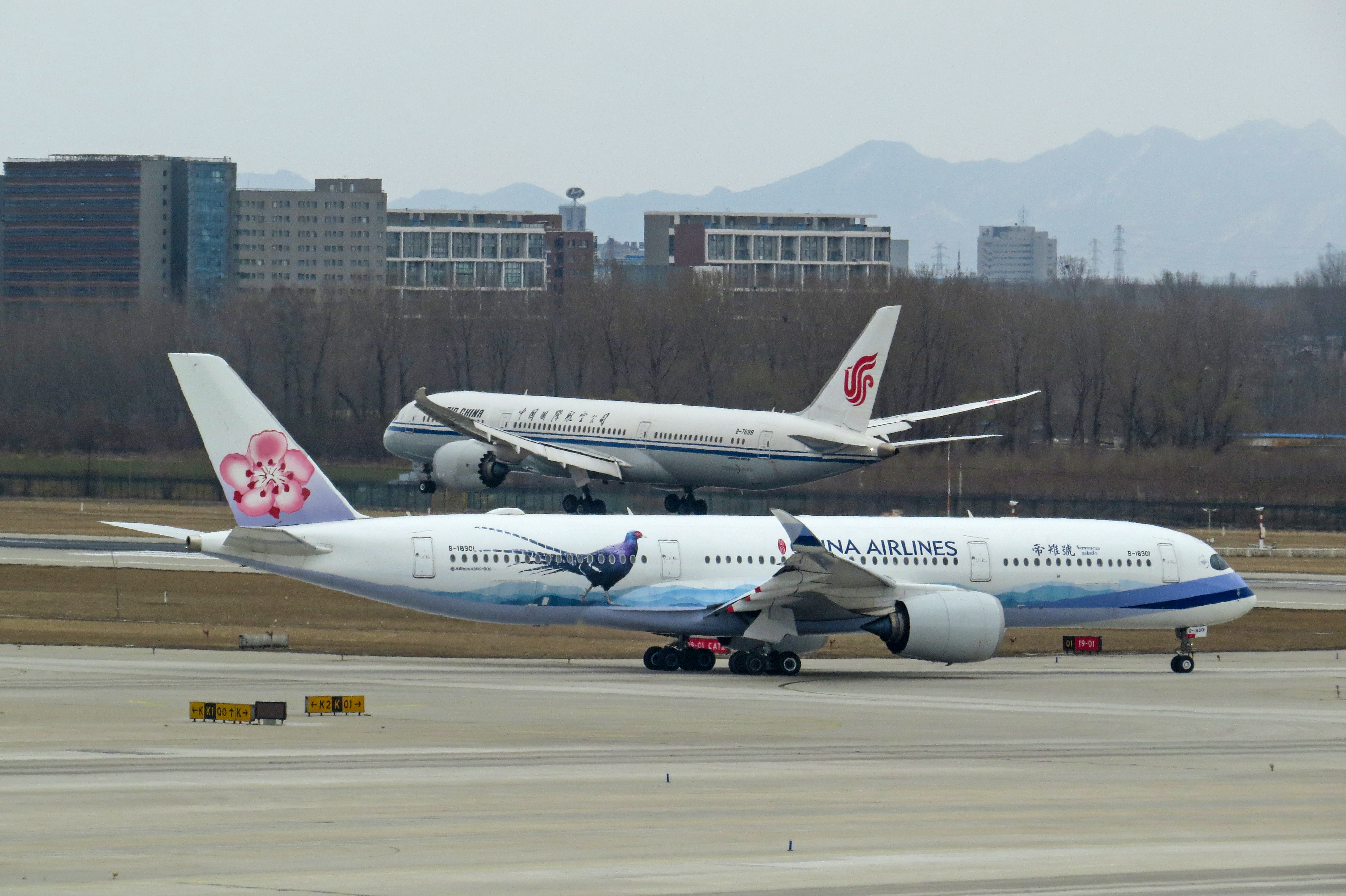 Dynasty 512 to Taipei. It's China Airlines' second A350 flight to Beijing, and probably the first visit of this Syrmaticus Mikado to ZBAA. Feat. B-7898.